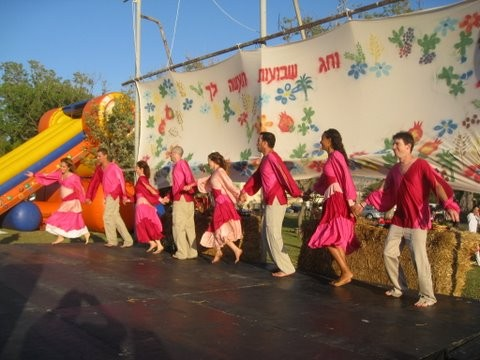 Show of dancing at shavuot